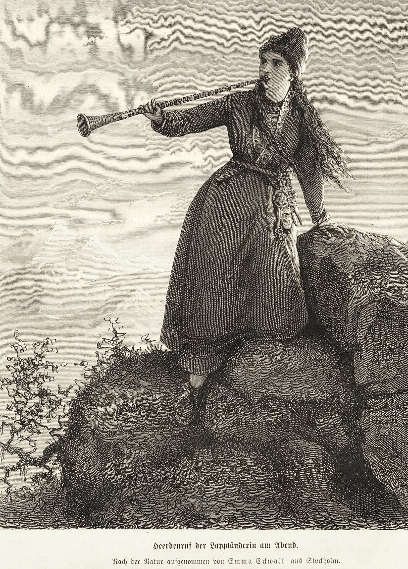 A Nordic Sami woman playing lur horn in the evening. Made after nature by Emma Edwall, Stockholm in Sweden. Mid 1800's.